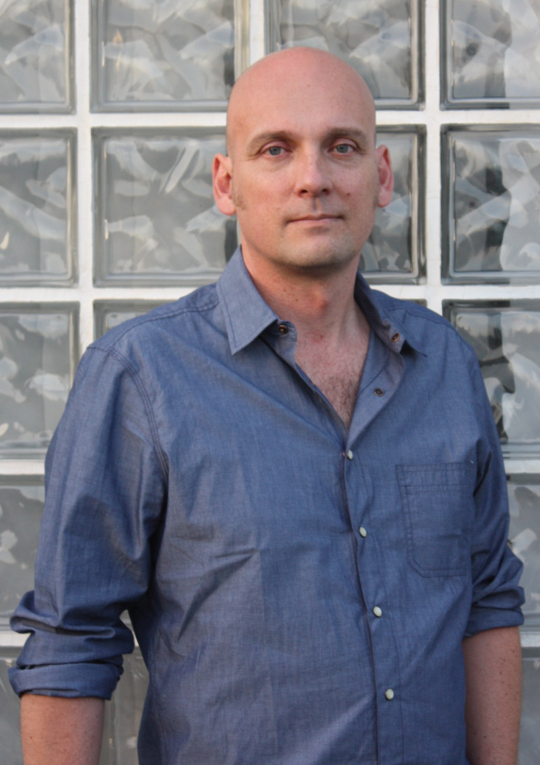 Photo of Robert Toth